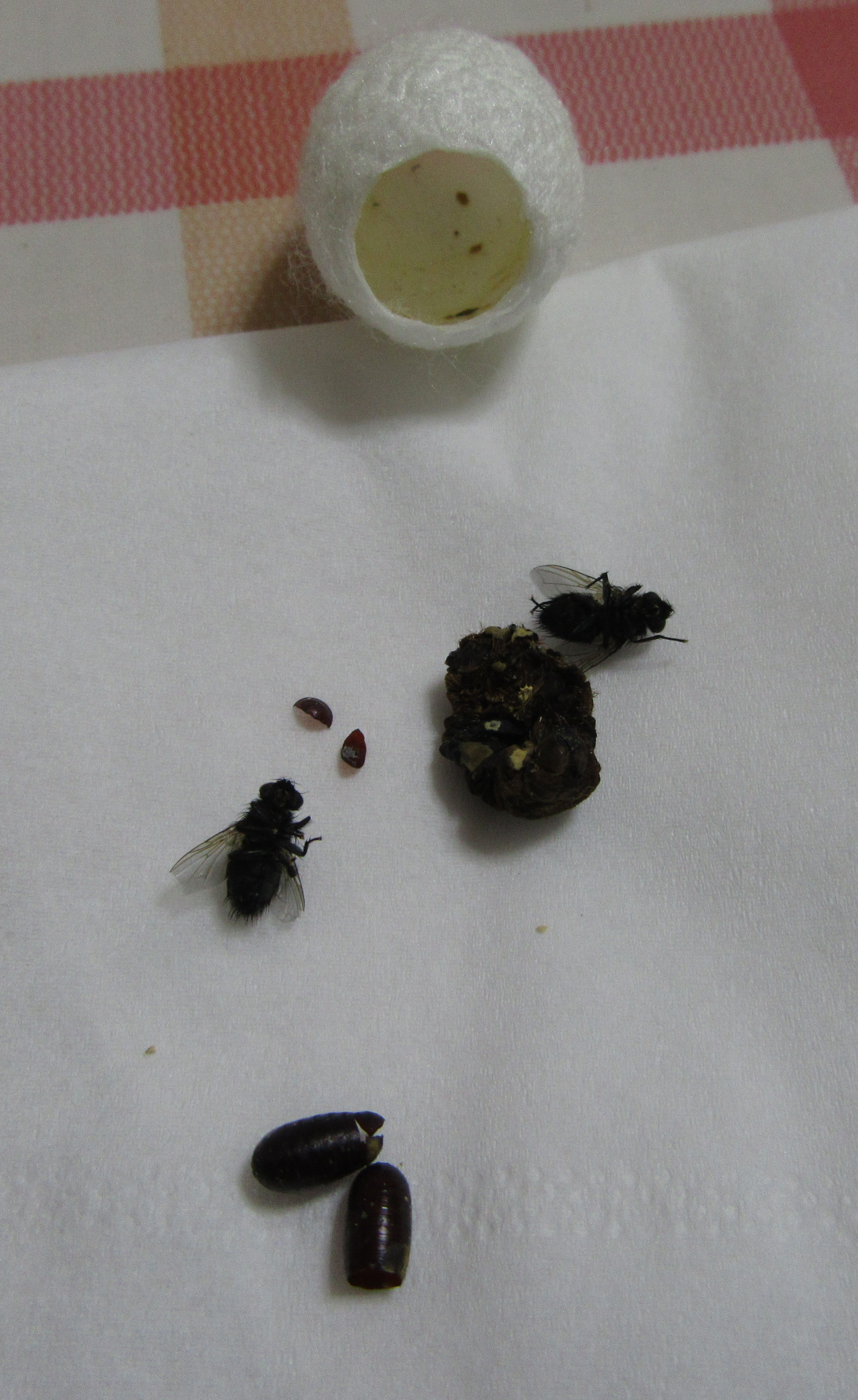 This is a picture of a dead silkworm caterpillar and two dead imago of uji fly, next to an open silk cocoon. The larvae of uji fly had been living inside the silkworm until it made a cocoon. After the cocoon was finished, uji fly larvae emerged from the caterpillar killing it. Because the cocoon of domestic silkworms is much thicker than that of wild ones, uji fly larvae could not pierce it and escape. Instead, they turned into pupae inside the cocoon, next to the dead silkworm. The imago of uji fly died inside, unable to mate and lay eggs.